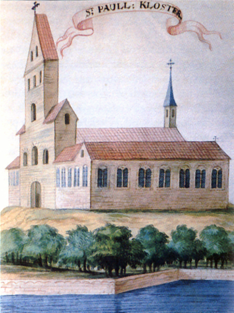 The former St. Paul monastery (established 1050 and destroyed 1523) in Bremen, Germany, in an old illustration from the Renner-Chronik (the “Renner chronicle”).